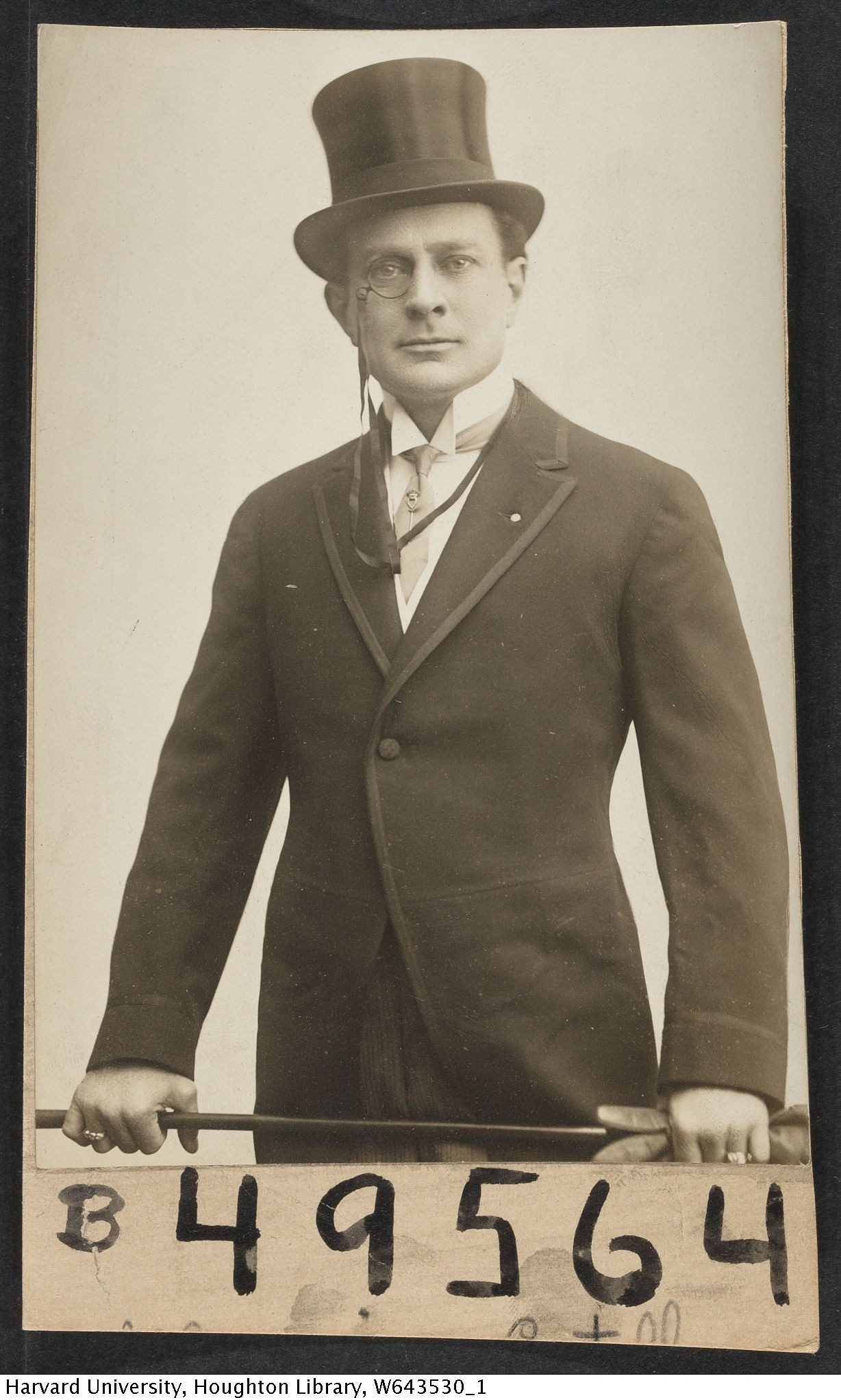 Cabinet card image of American vaudeville actor Maurice Costello (1877-1950). TCS 1.6017, Harvard Theatre Collection, Harvard University